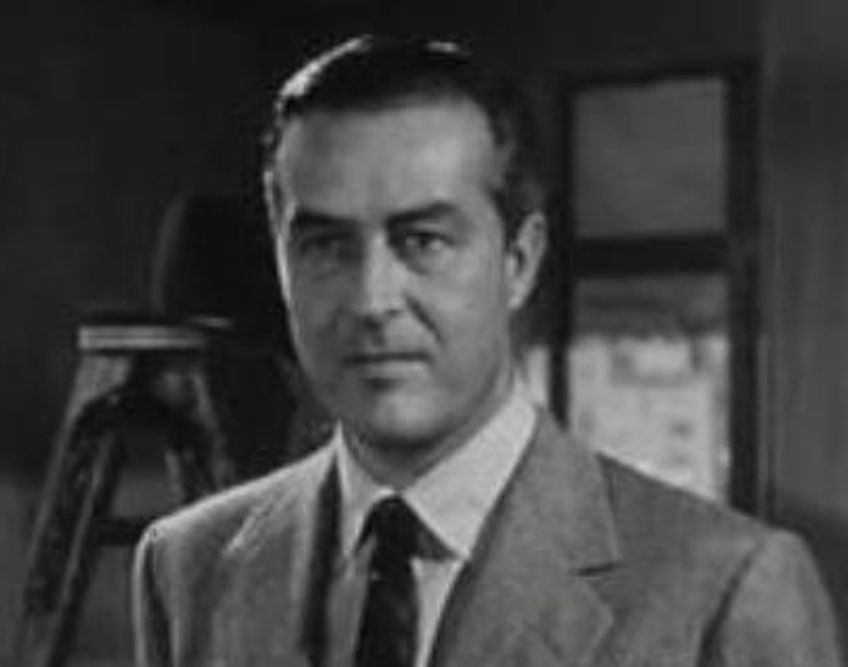 Cropped screenshot of Ray Milland from the film A Life of Her Own